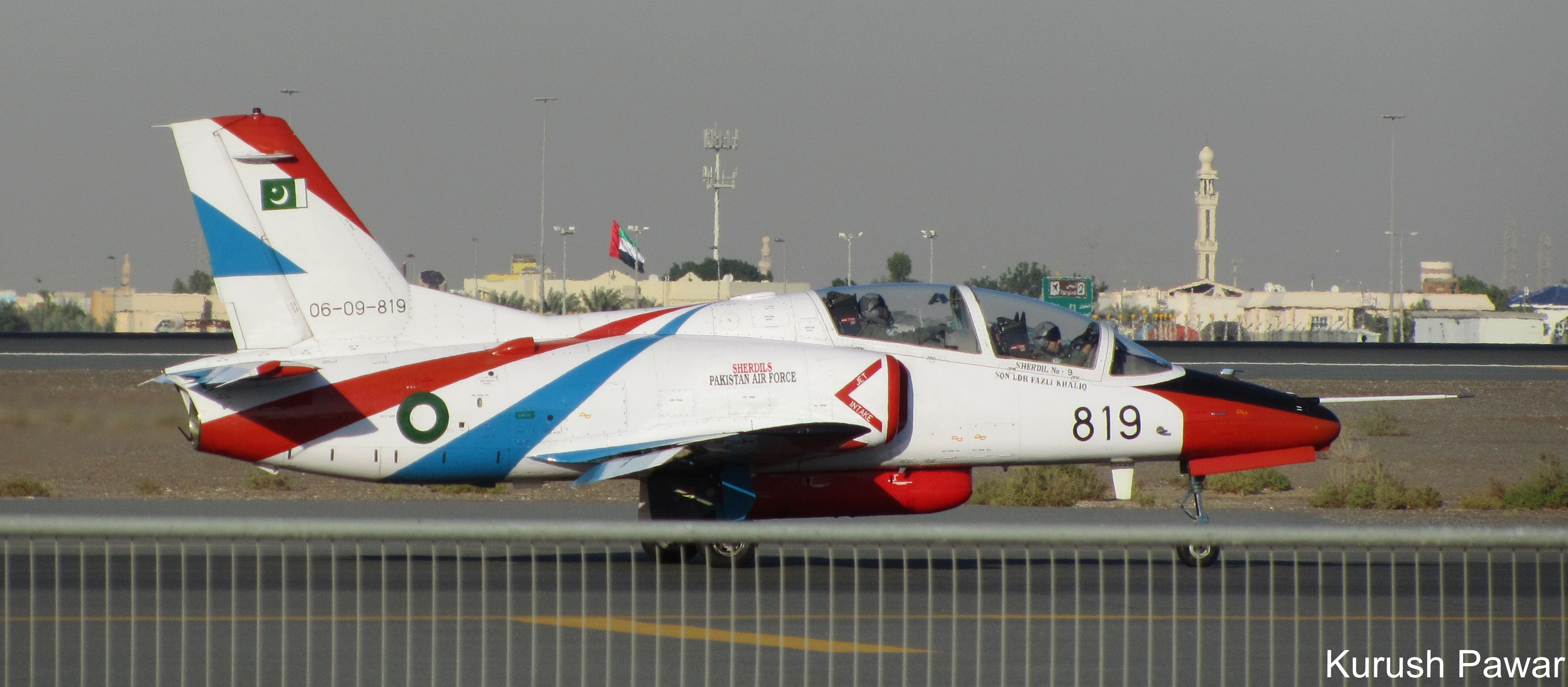 The Hongdu JL-8 (Nanchang JL-8), also known as the Karakorum-8, is a two-seat intermediate jet trainer and light attack aircraft designed in the People's Republic of China by China Nanchang Aircraft Manufacturing Corporation. One of its export variants, K-8P Karakorum is co-produced by the Pakistan Aeronautical Complex. The name Karakorum is derived from the mountain range which seperates Pakistan and China. This K-8 belonging to the Pakistan Air Force aerobatics team, Sherdils, is seen taxiing for Runway 30L to begin its performance at the Dubai Airshow 2011. Like my Facebook fan page